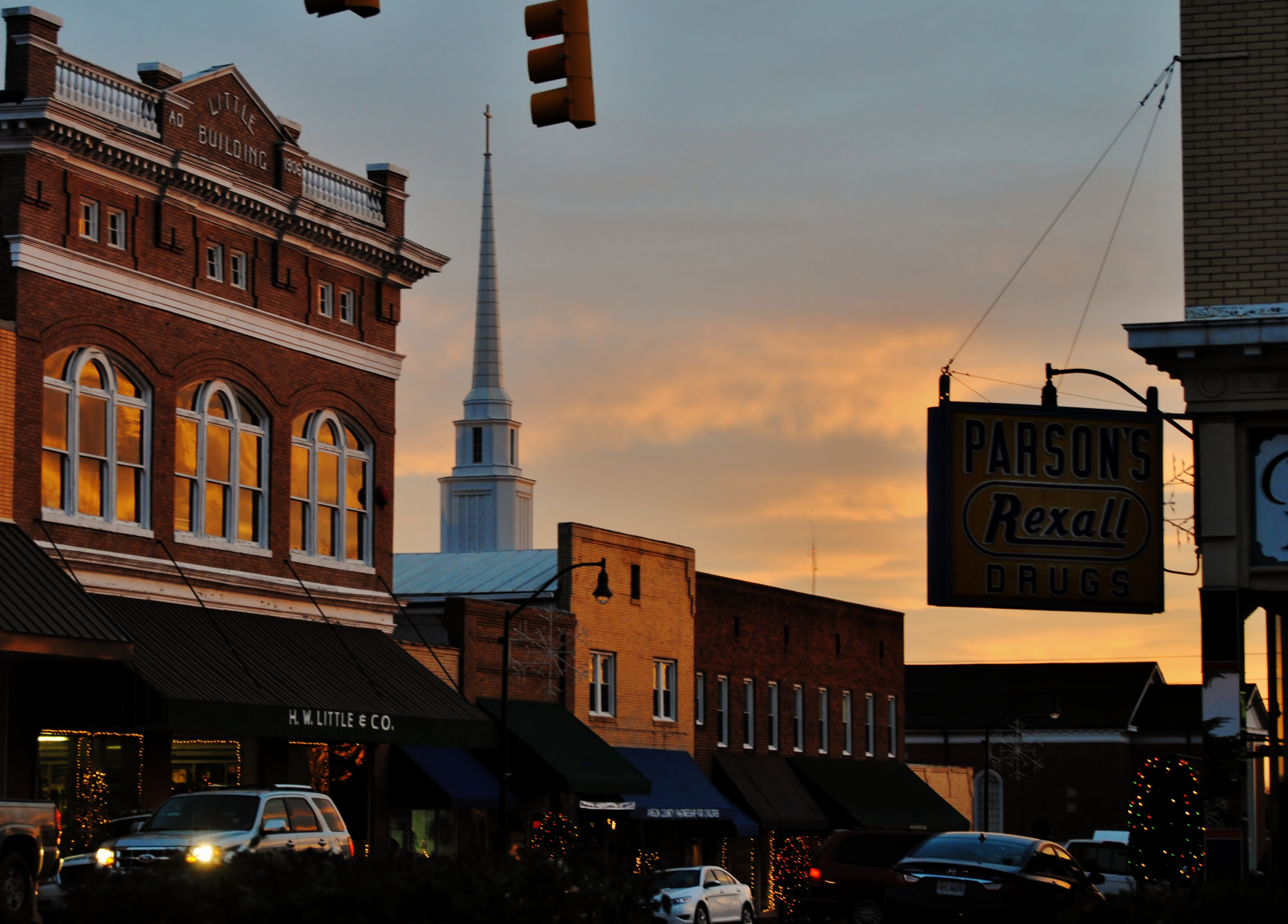 This picture was taken of Uptown Wadesboro in December 2014.